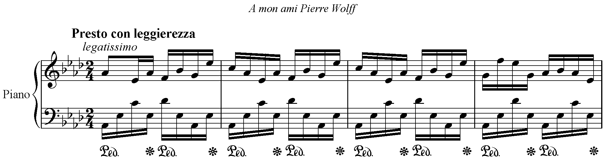 4 first bars of Chopins prelude 26